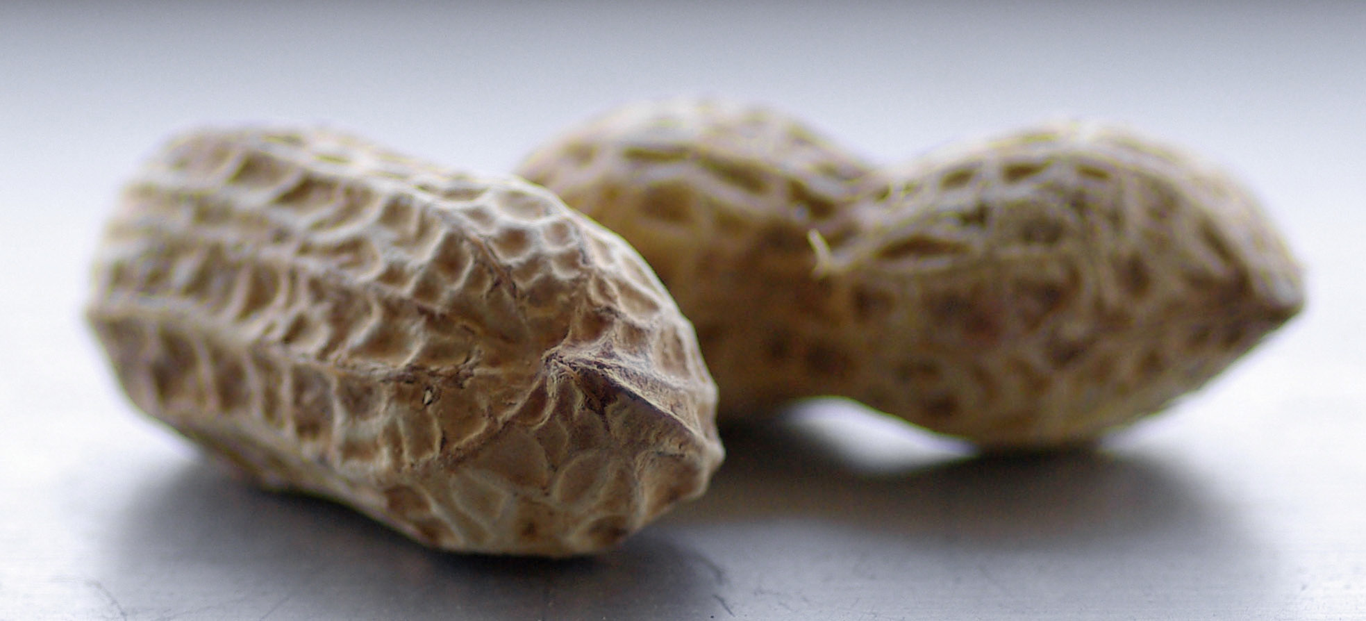 A close-up shot of 2 roasted peanuts.